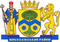 Coats of arms of Mykolaivskyi Raion